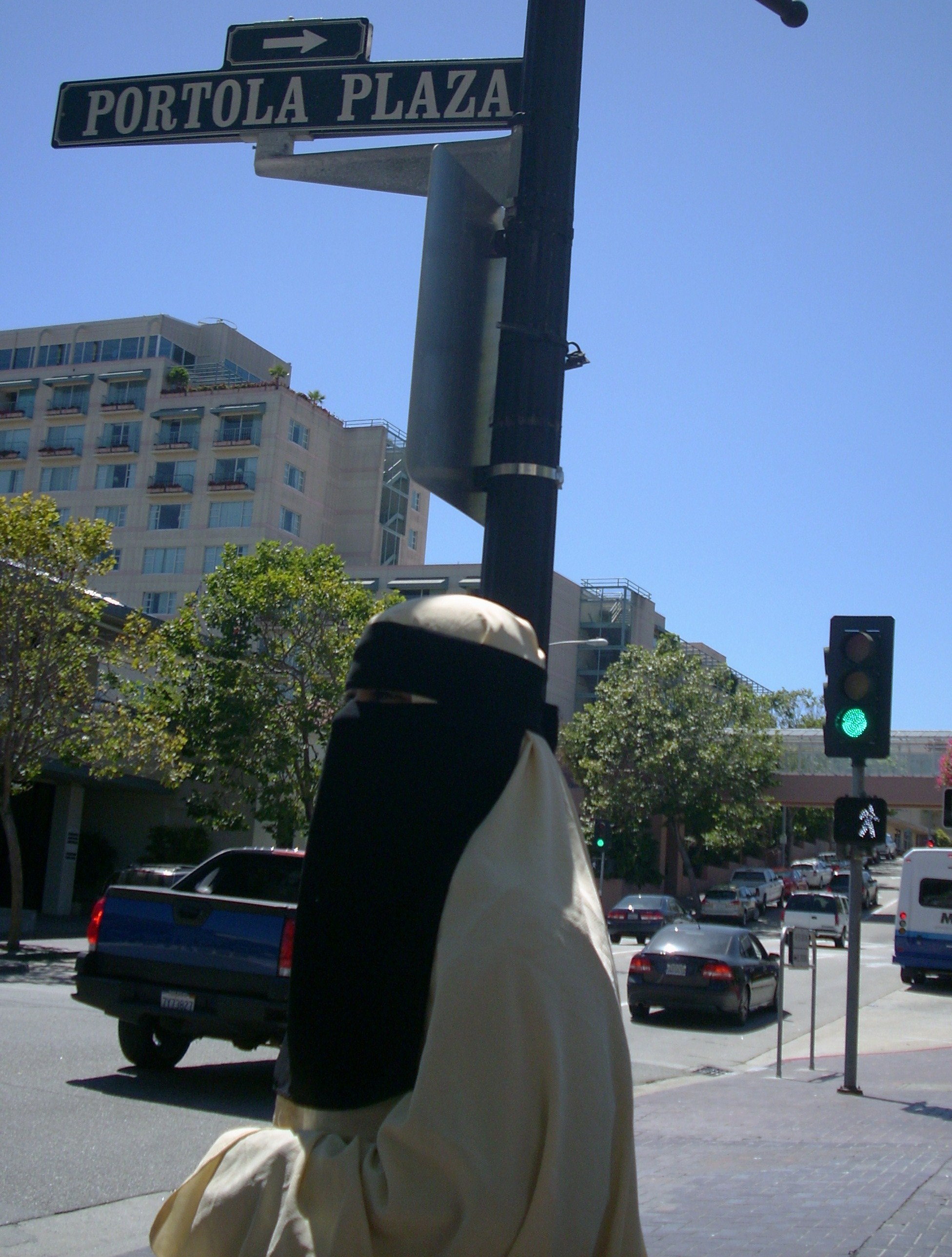 A woman wearing a Niqāb in Monterey, California